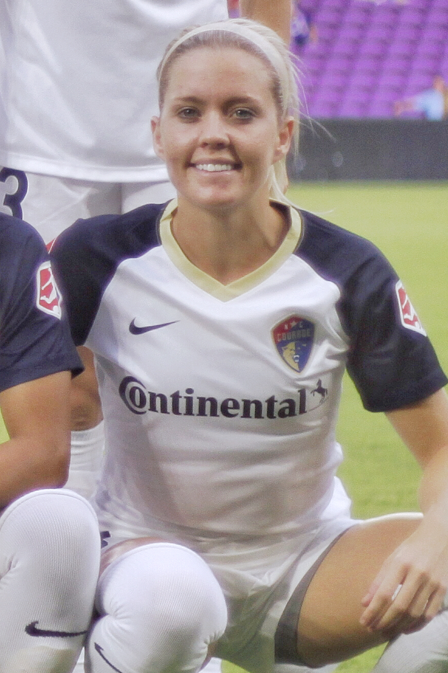 North Carolina Courage